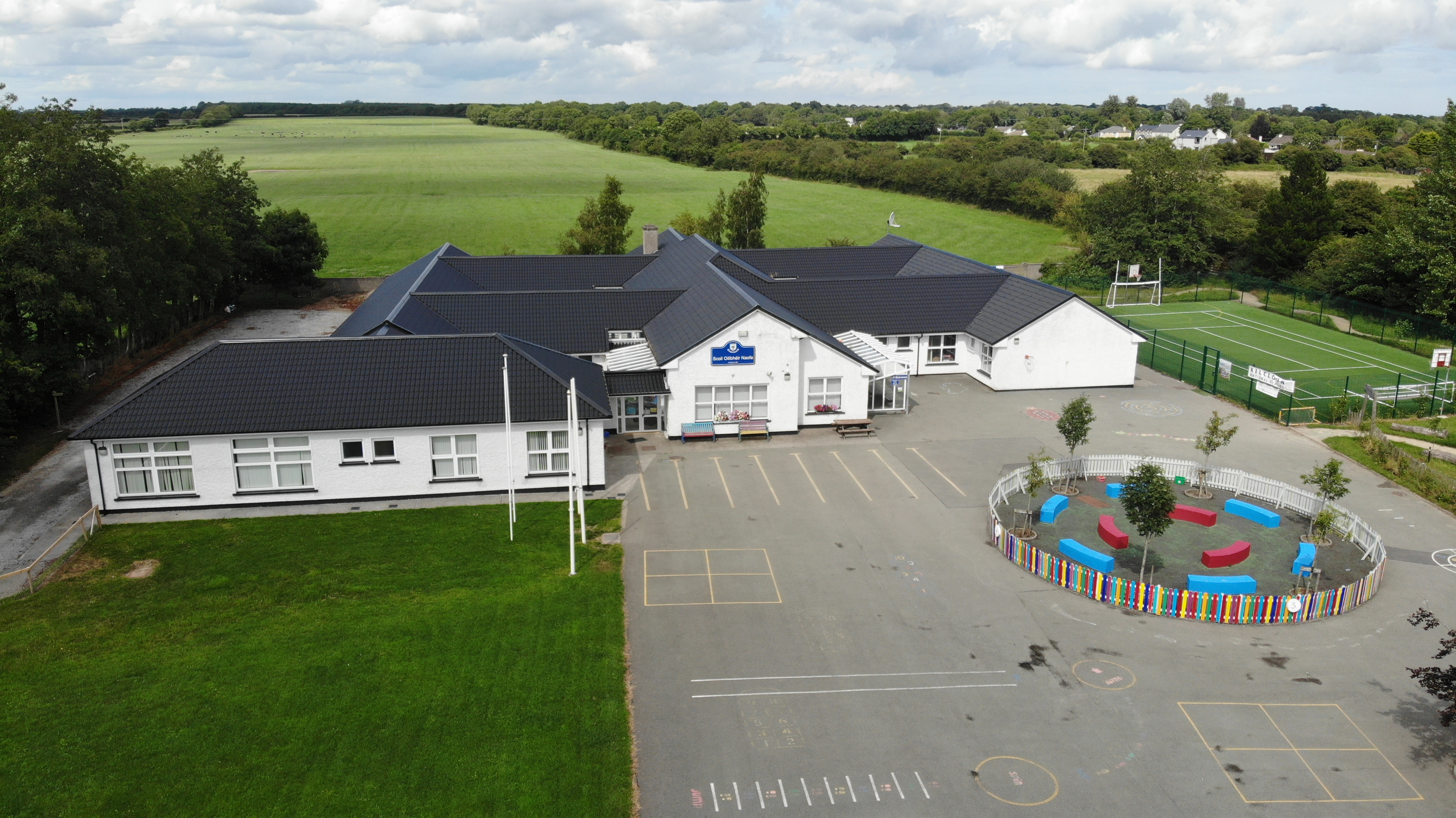 Kilcloon Primary School